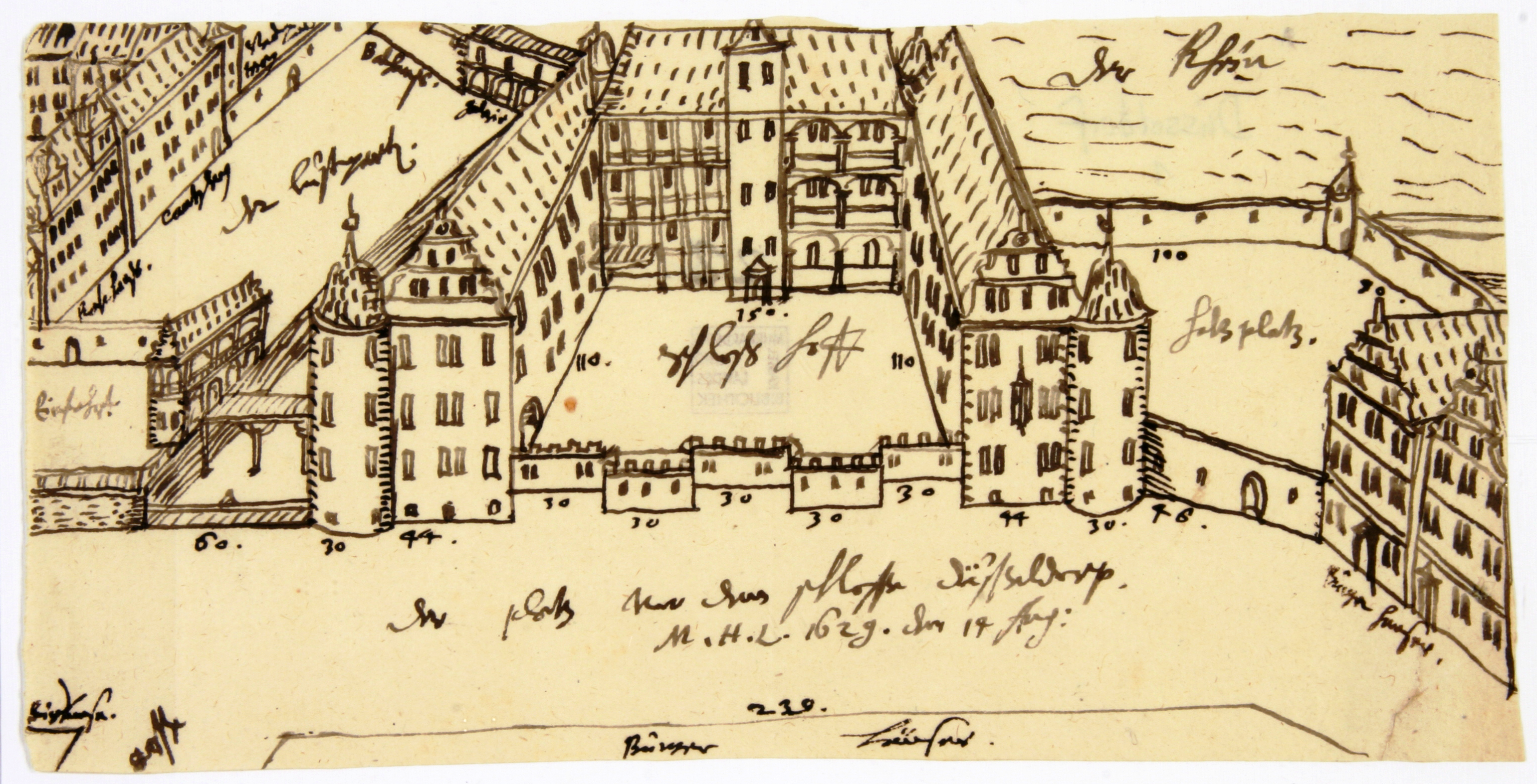 t